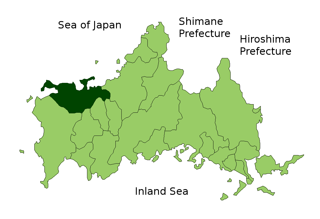 Map of Yamaguchi Prefecture highlighting Nagato city. Borders of map as of July, 2006. (blank map used from [1]) See also Image:YamaguchiMapCurrent.png.